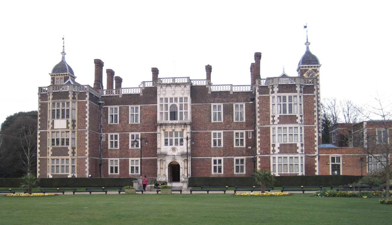 Charlton House